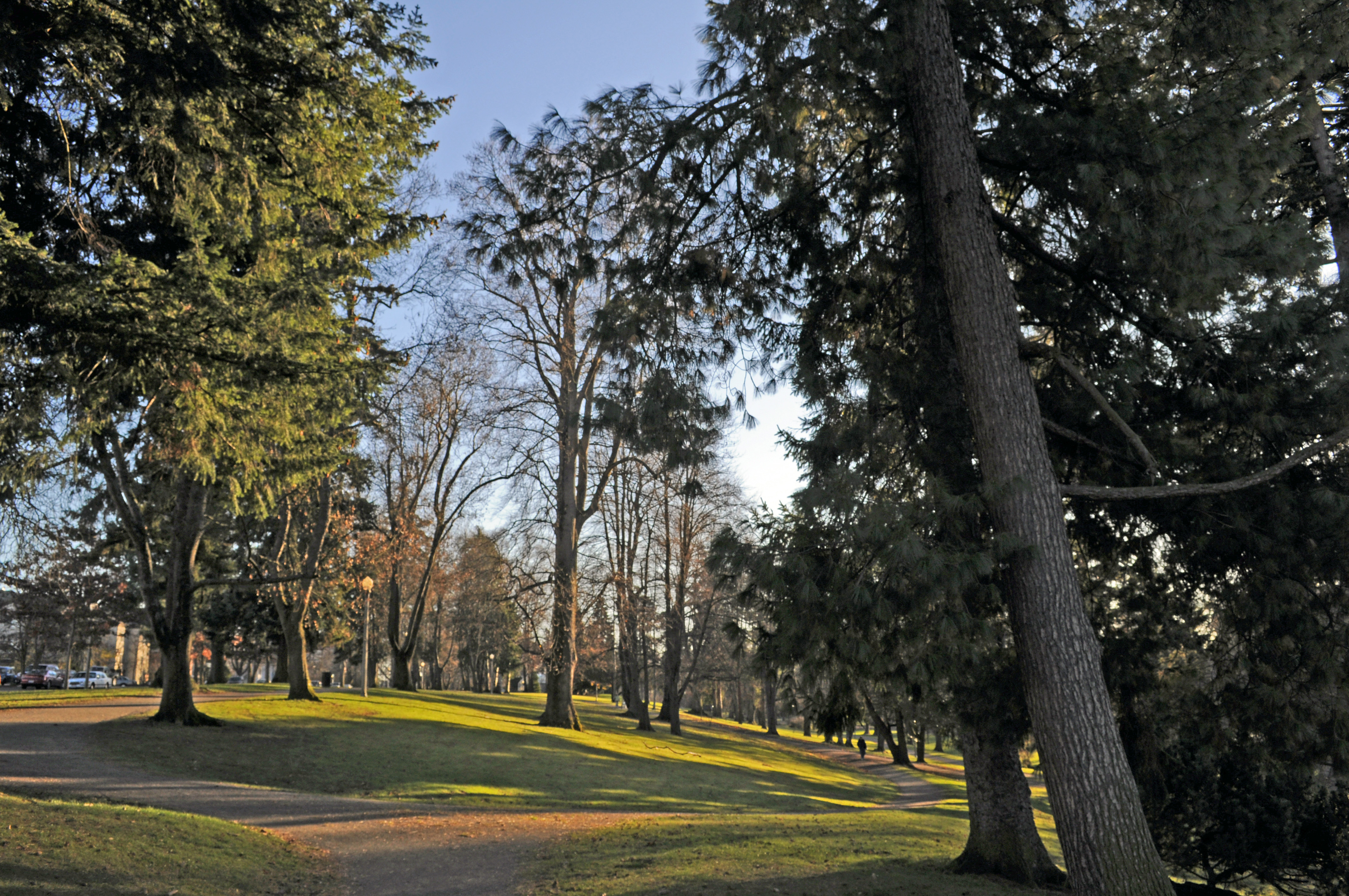 Wright Park, adjacent to the Stadium District, Tacoma, Washington.